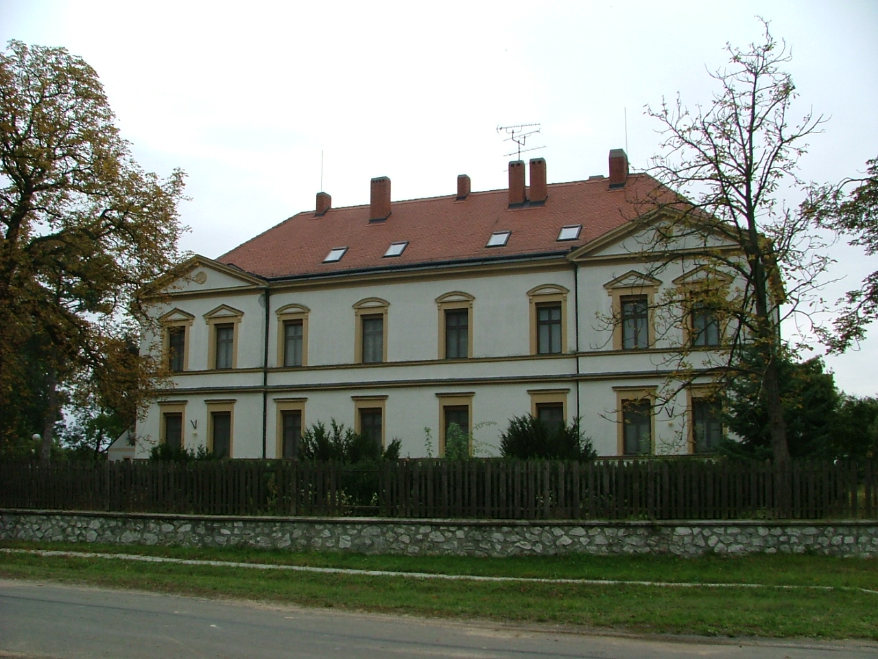 The Heller-castle in Pusztacsalád